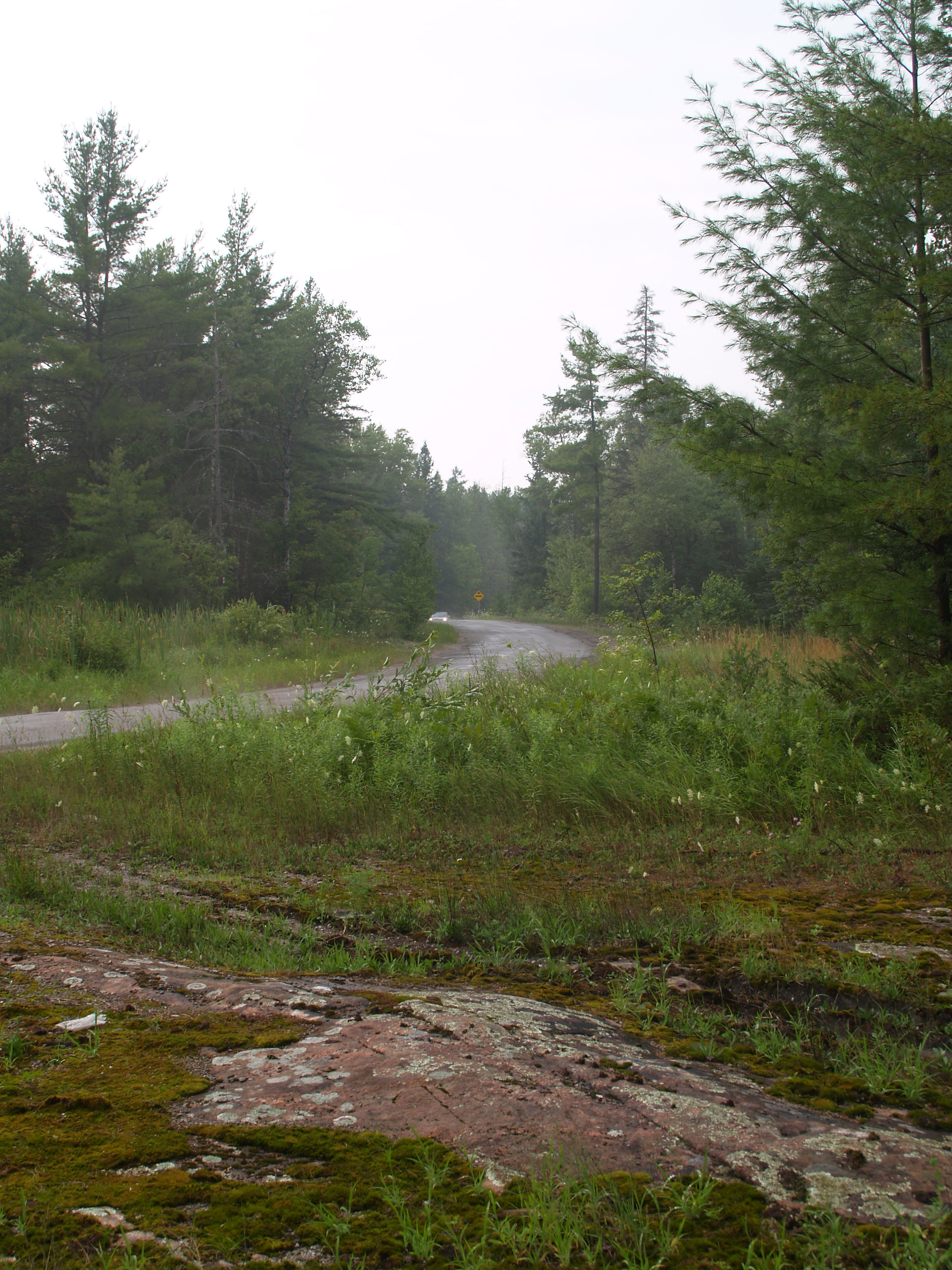 The northern section of Kawartha Lakes Road 35 (the Victoria Colonization Road) becomes a rough and narrow road through thick forests. After crossing the Head River, it enters the Canadian Shield.